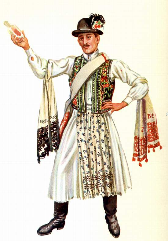 A traditional Hungarian Vőfély drawn in 1885